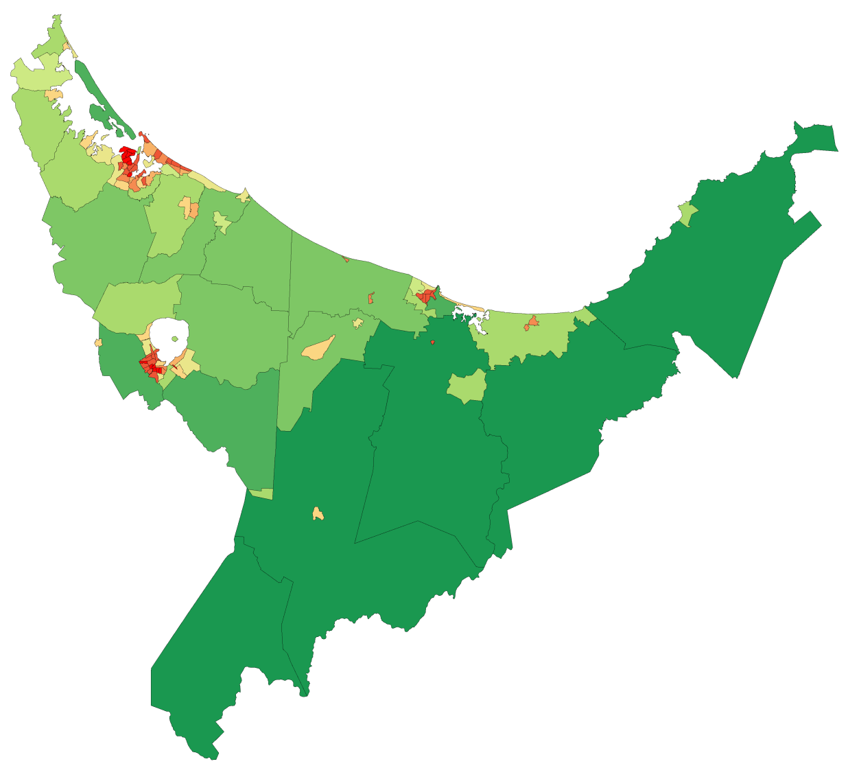 Map showing population density of a region of New Zealand (by Statistics NZ Area Unit) as of the 2006 census